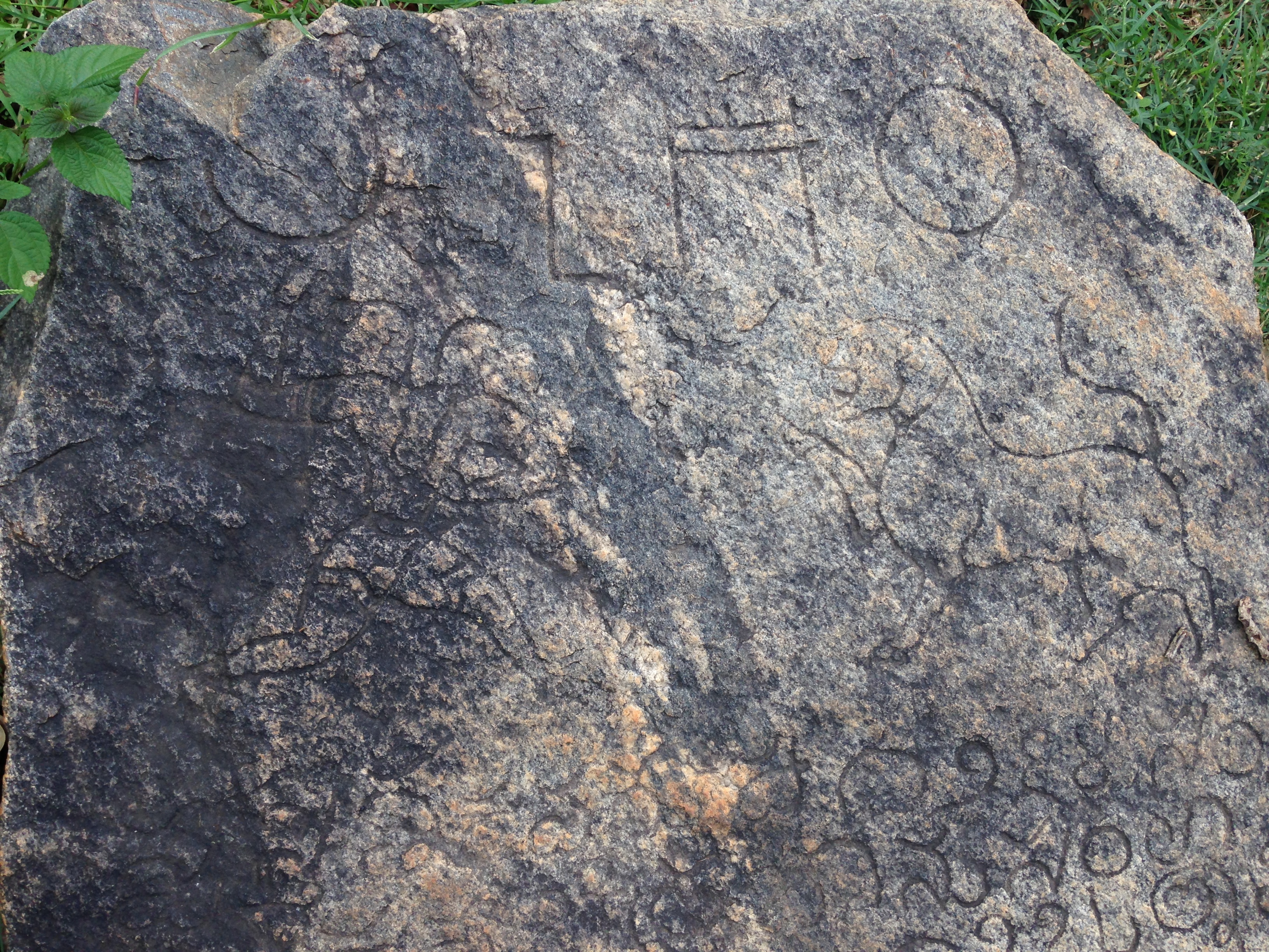 inscriptionstonesofbangalore